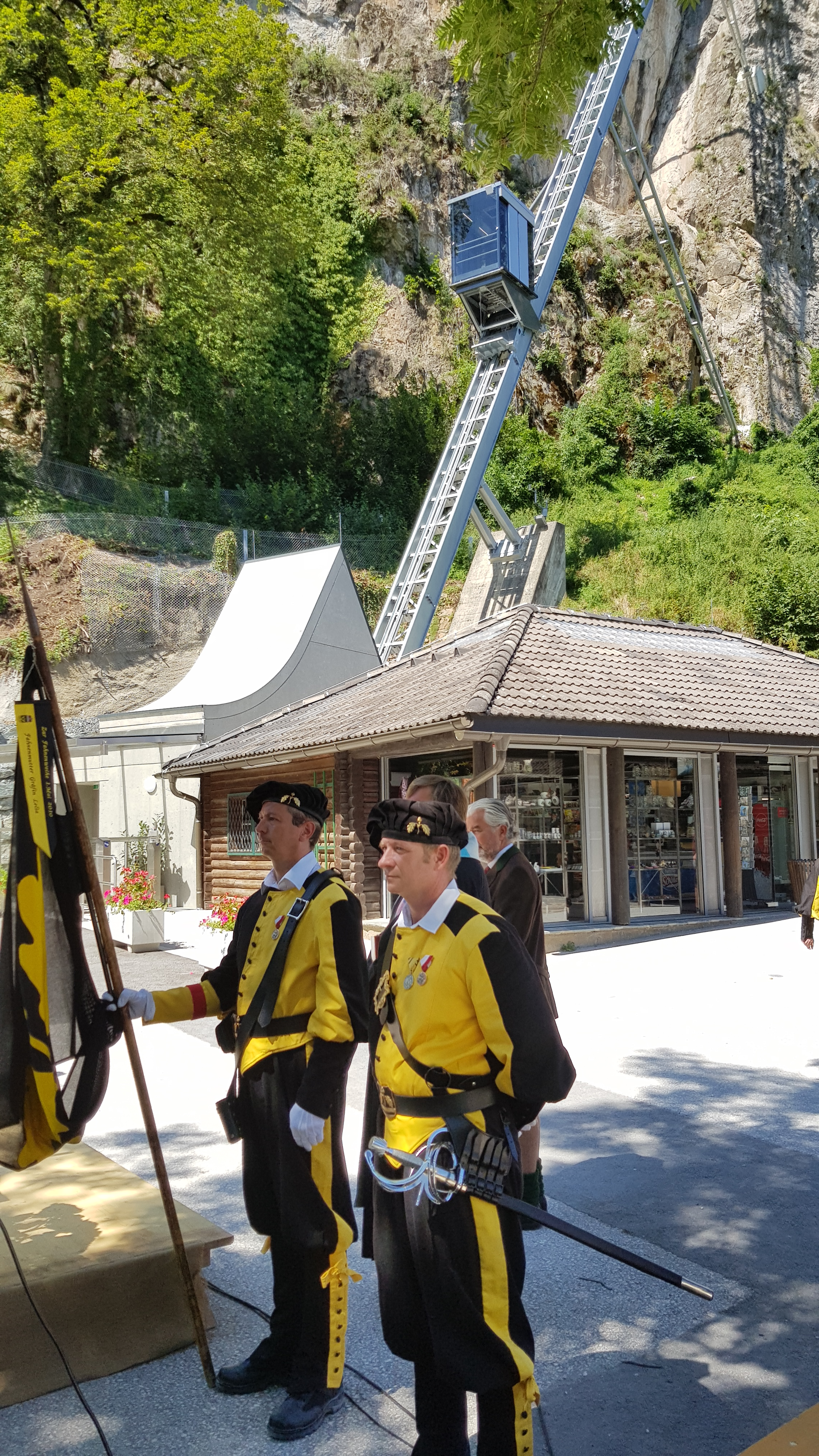 Inclined Lift Hochosterwitz Castle, Austria - Lower Station with guard